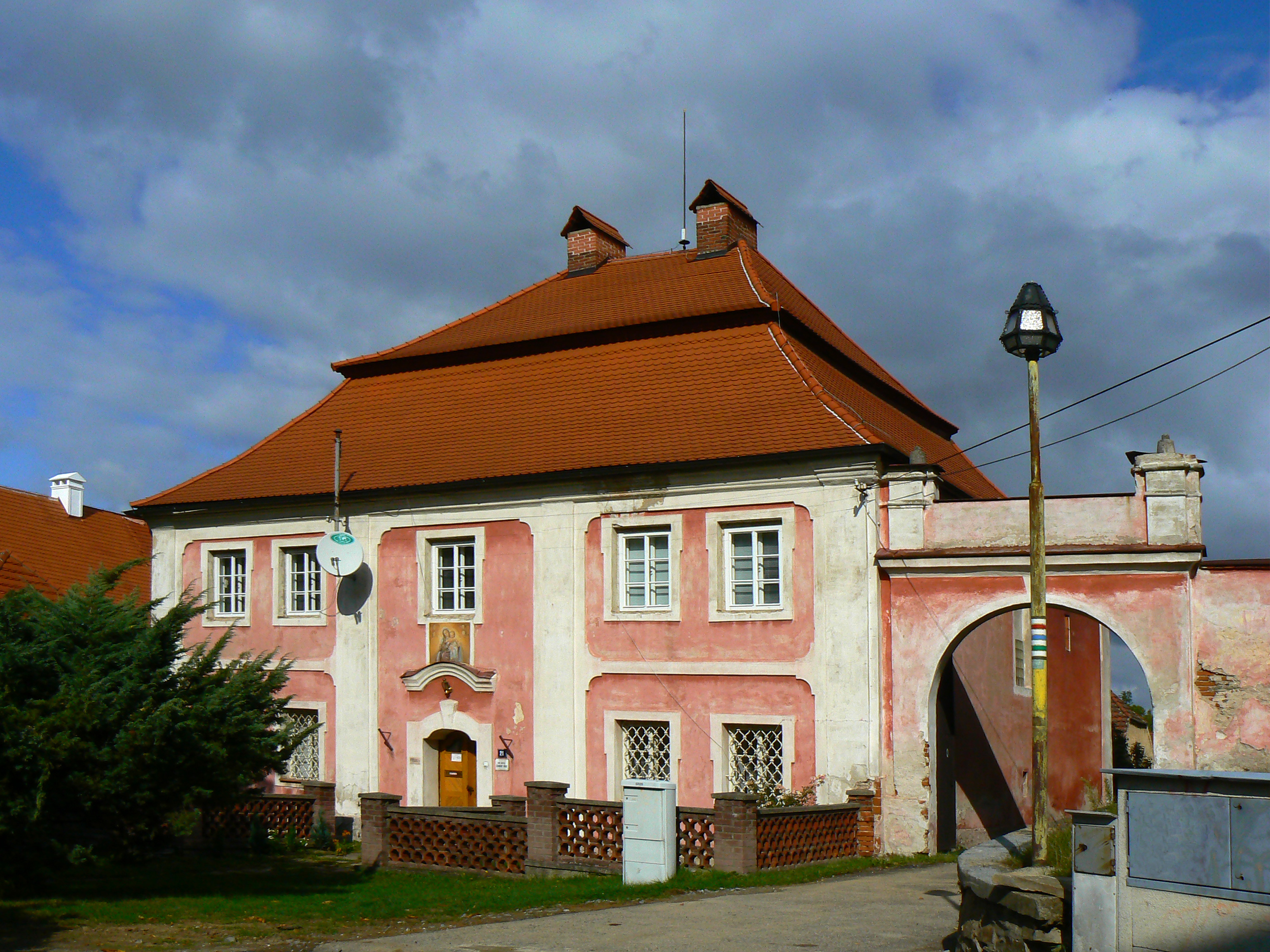 Rectory in Mlada Vozice